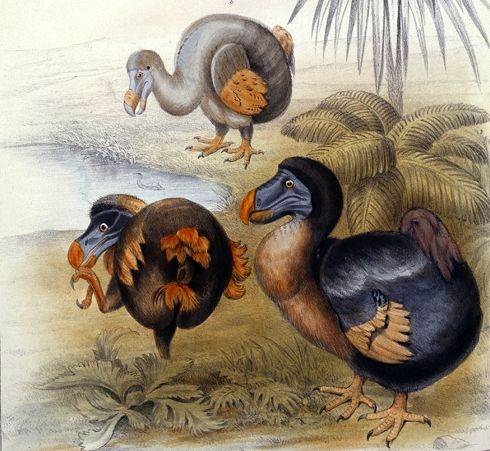 A page from the book Memoir of the Dodo